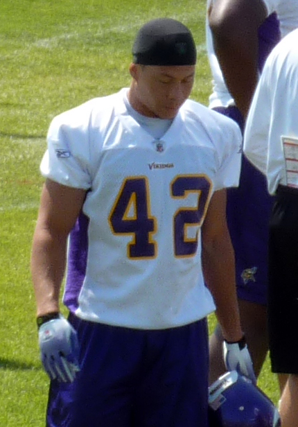 Ian Johnson, while a member of the Minnesota Vikings, at the Vikings' 2009 Training Camp, Mankato, Minnesota, USA.